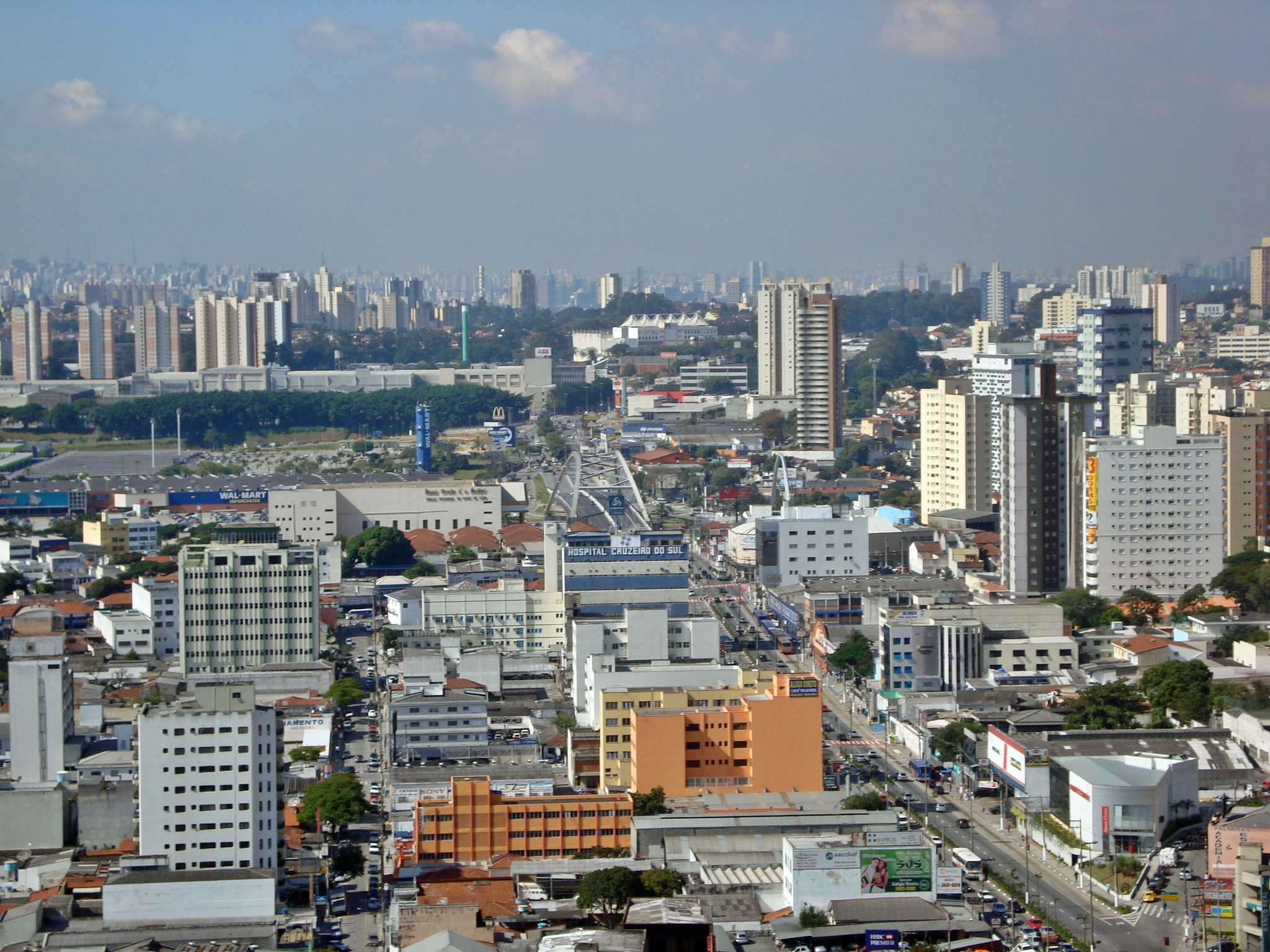 View of Downtown Osasco from the top floor of Best Western Osasco